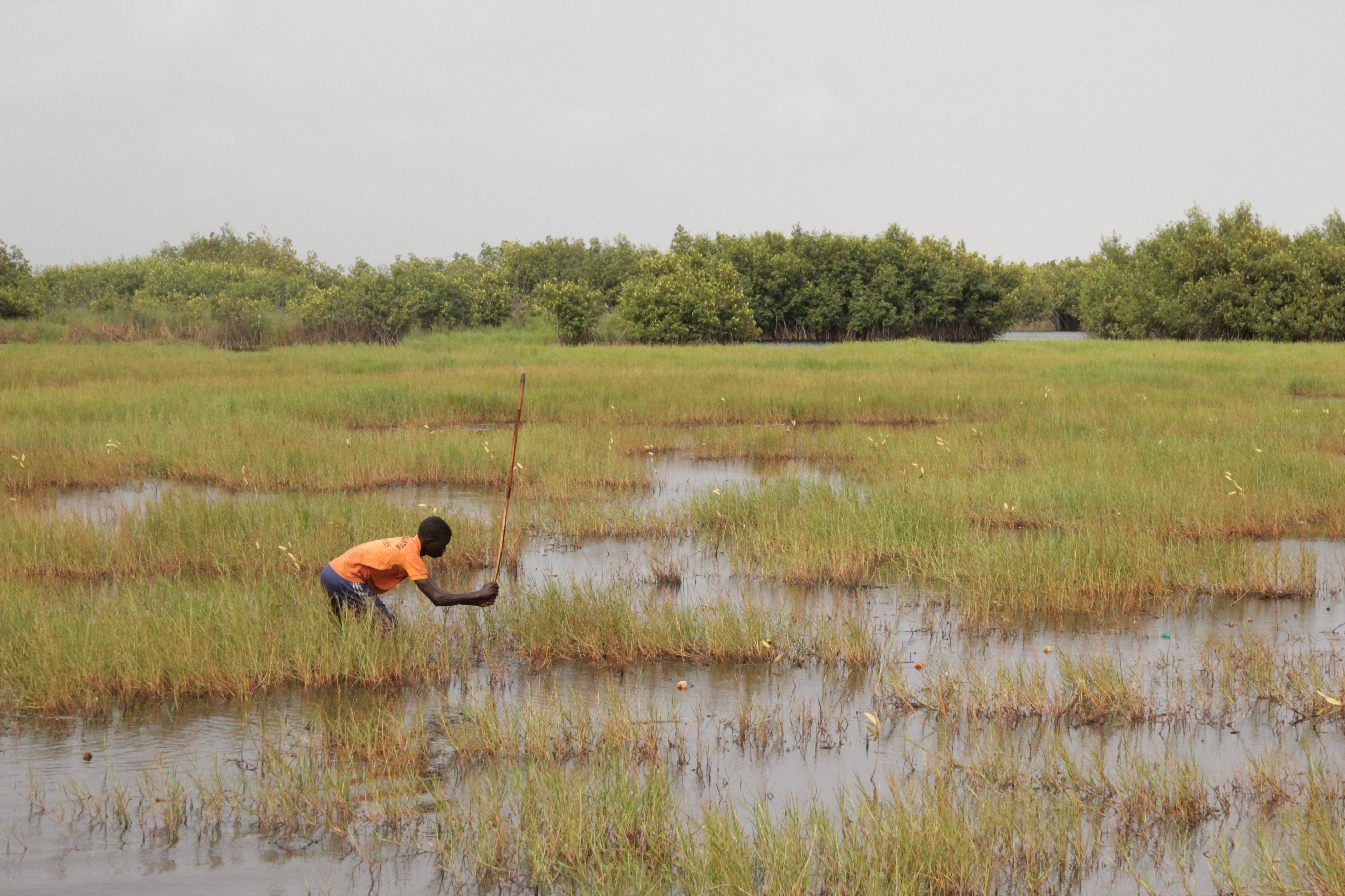 A boy prepares to slap the water, scaring fish towards his net. Fish are a staple source of protein for the country’s population. They’re often caught in coastal areas, smoked, and shipped inland. This photo was taken in the wetlands of Ouidah, the historic site of the 19th century slave port in southern Benin.